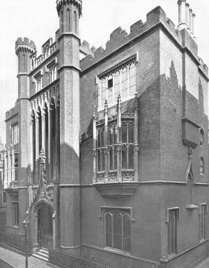 A photograph of the original City of London School building in Milk Street (1834-1883)